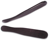 Wooden bones